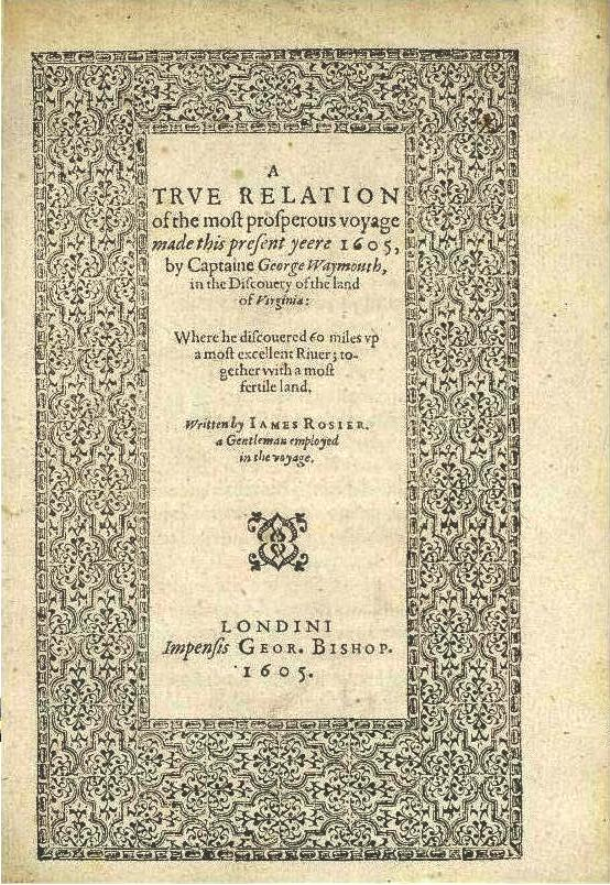 Title page of Rosier's True Relation (1605)